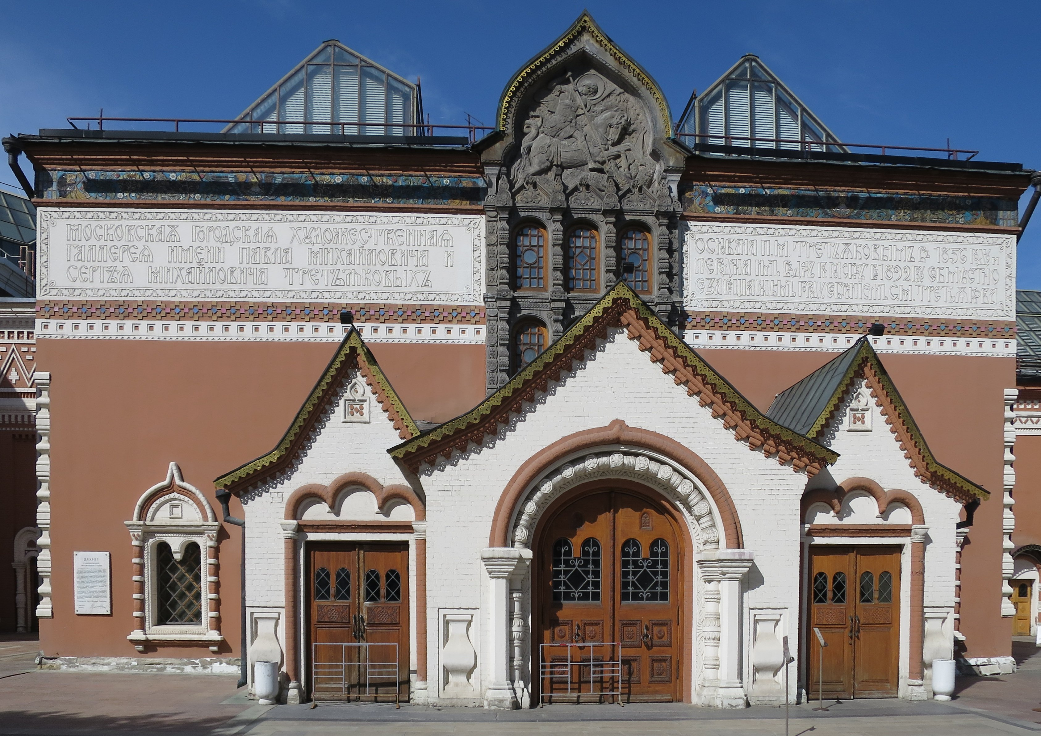 Main building of Tretyakov Gallery, Moscow